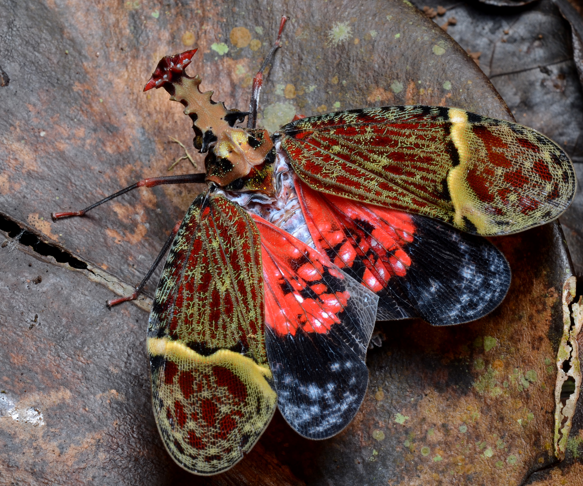 A hopper (Phrictus quinquepartitus) at La Selva Biological Station, Sarapiqui, Costa Rica.